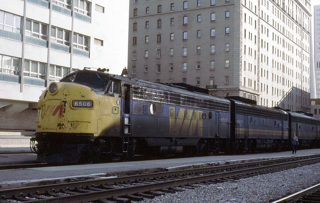 VIA 1 arriving Calgary,the locos are gonna be changed for 4 equipped with dynamic brakes for the big hill.6506 was sold to Gettysburg Pa and renumberd 404.